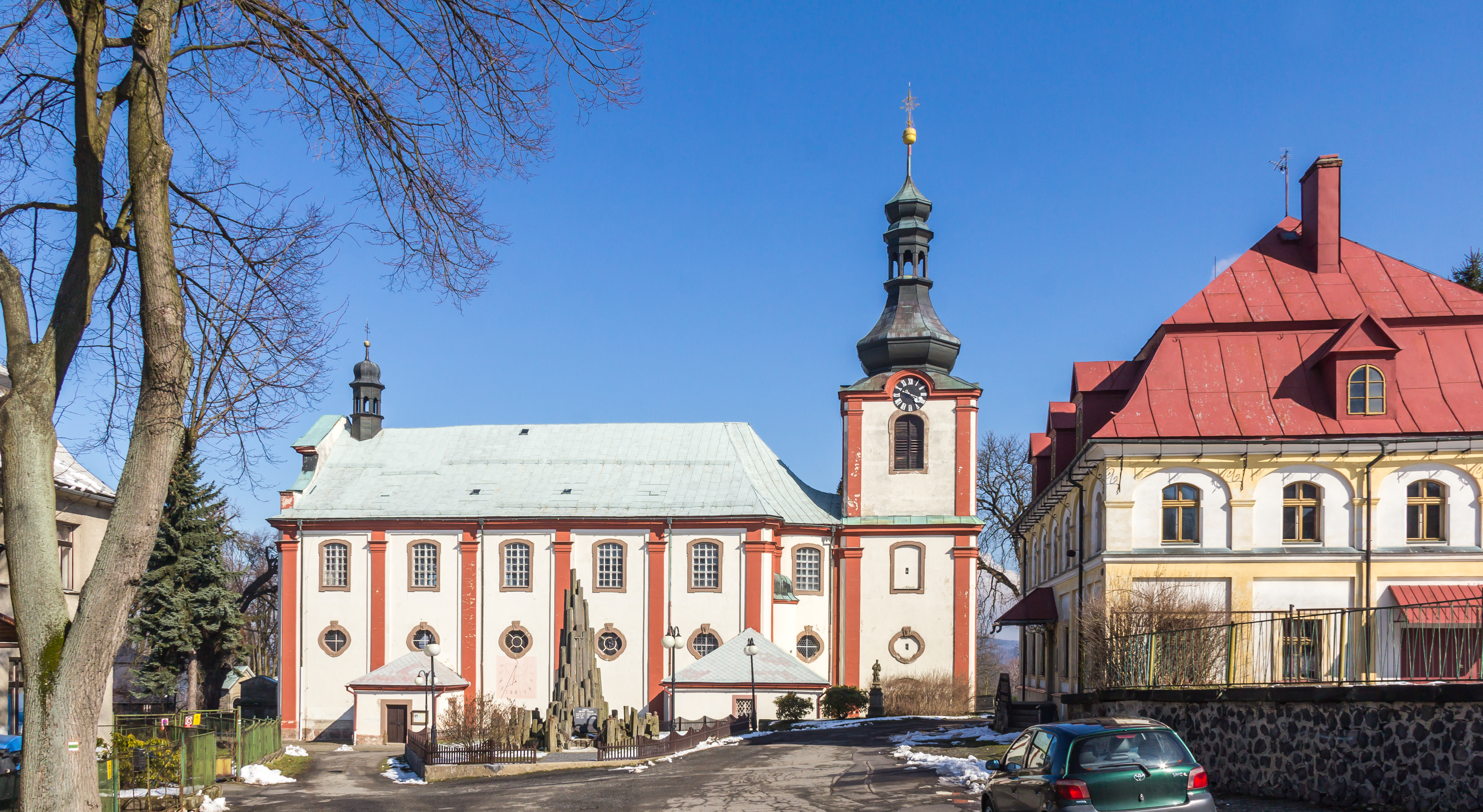 Church of the Nativity of Saint John the Baptist Kamenický Šenov